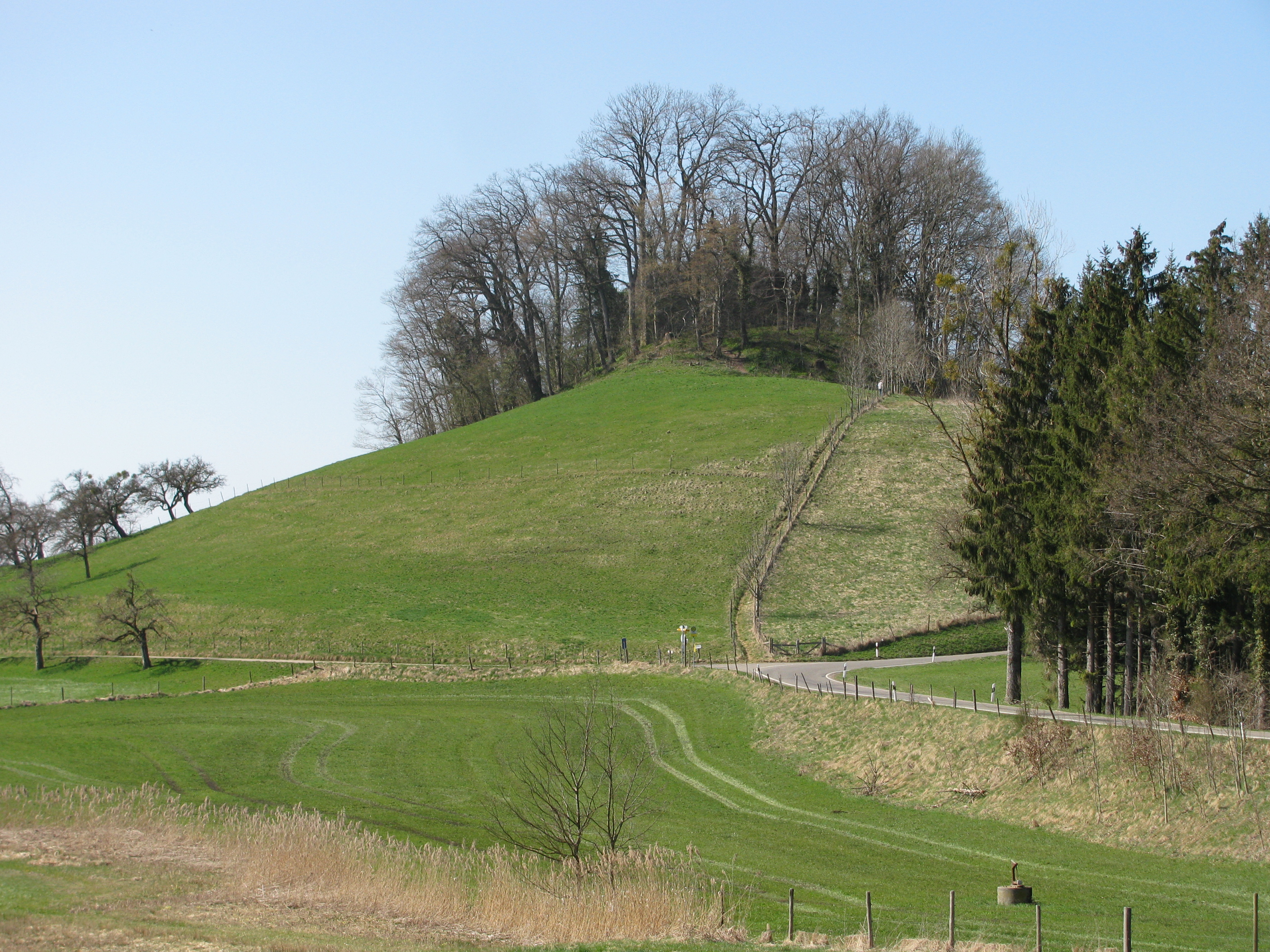 Germany - Baden-Württemberg - Bodenseekreis - Neukirch: terminal moraine peak 'Ebersberg', part of 'Endmoränenkegel Ebersberg mit Mahlweiher' protected landscape area